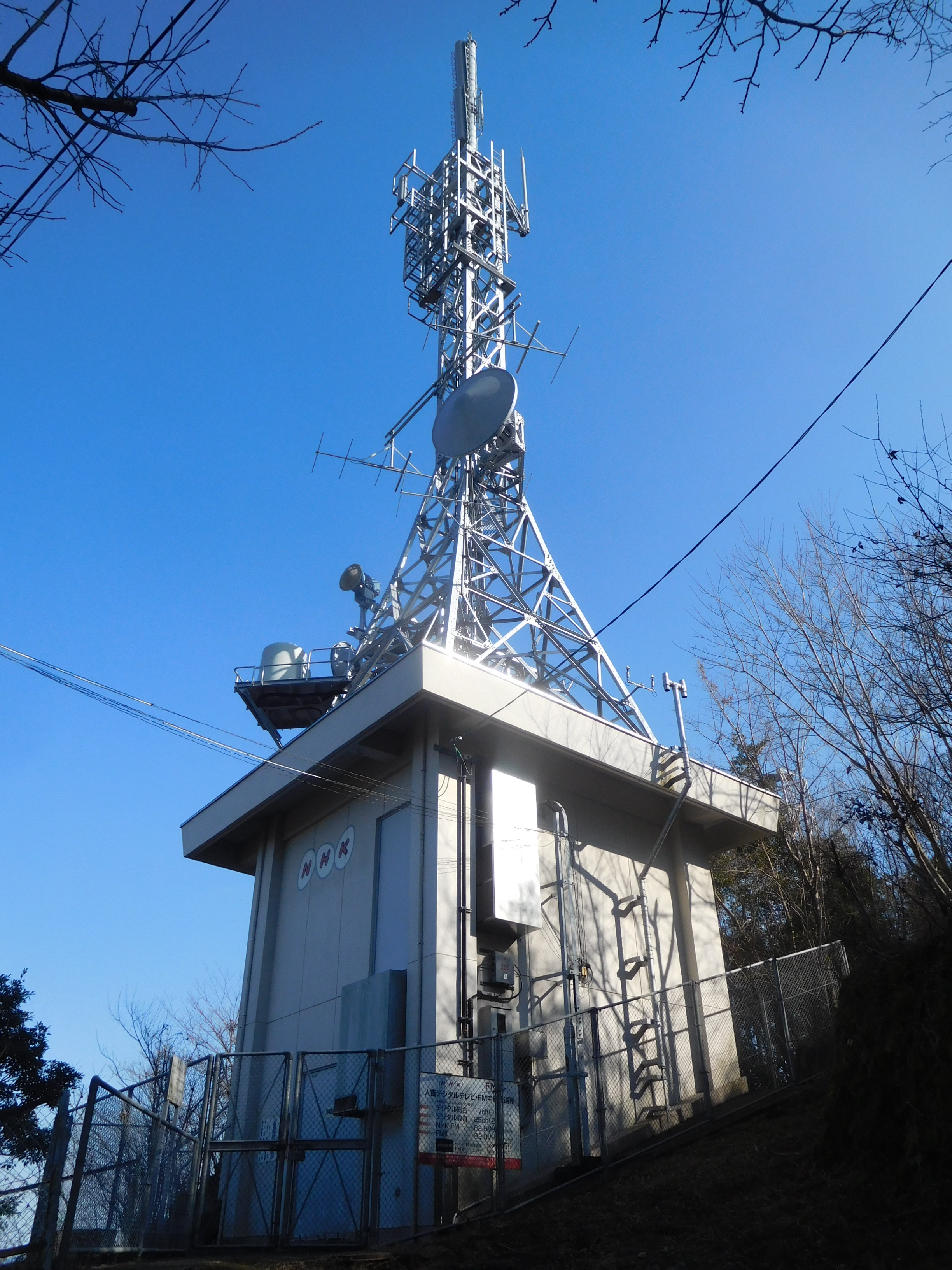 NHK Kumamoto (JOGK) and FM Kumamoto Hitoyoshi Relay Station in 2018 (Hitoyoshi City, Kumamoto, Japan).